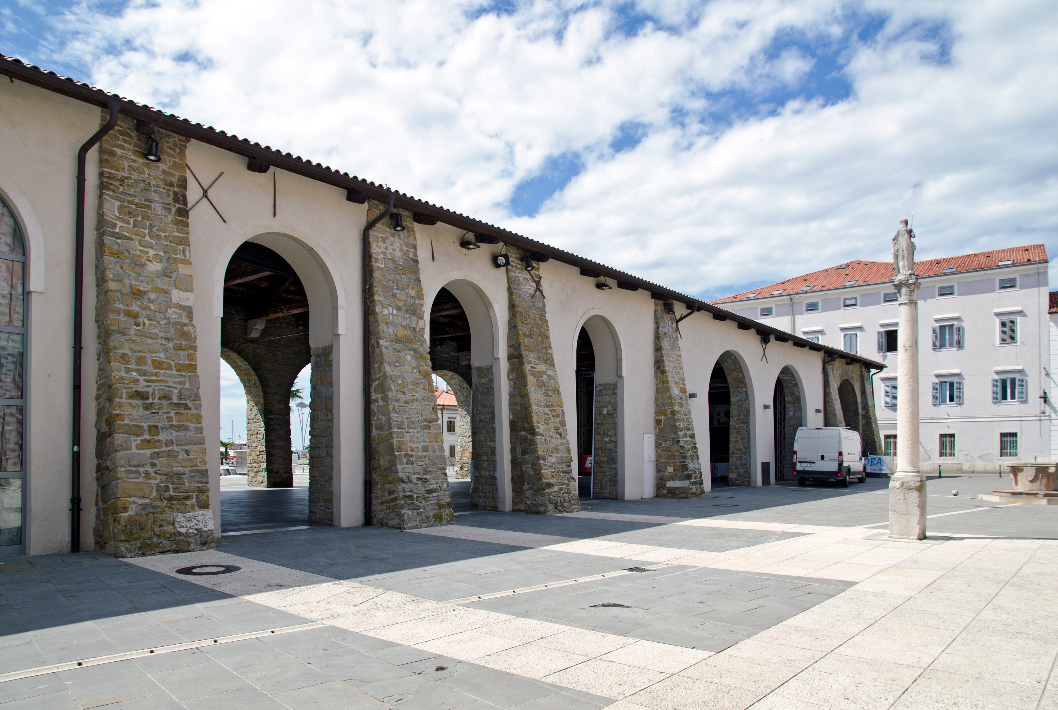 Koper (Slovenia), Carpaccio Square and Taverna (at Venetian times: salt depot, roofed market) as well as column of Saint Justina